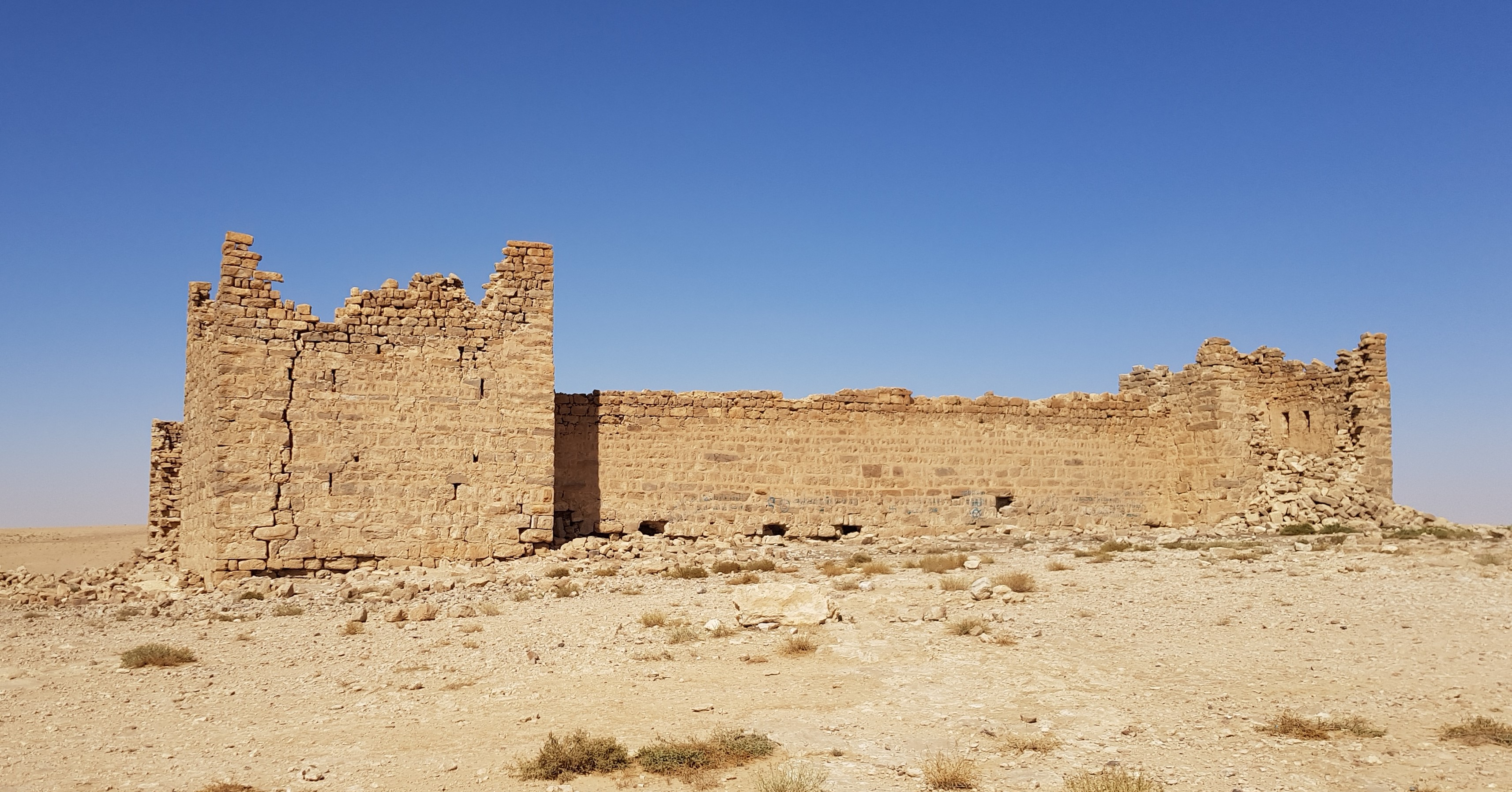 Qasr Bshir, eastern wall.